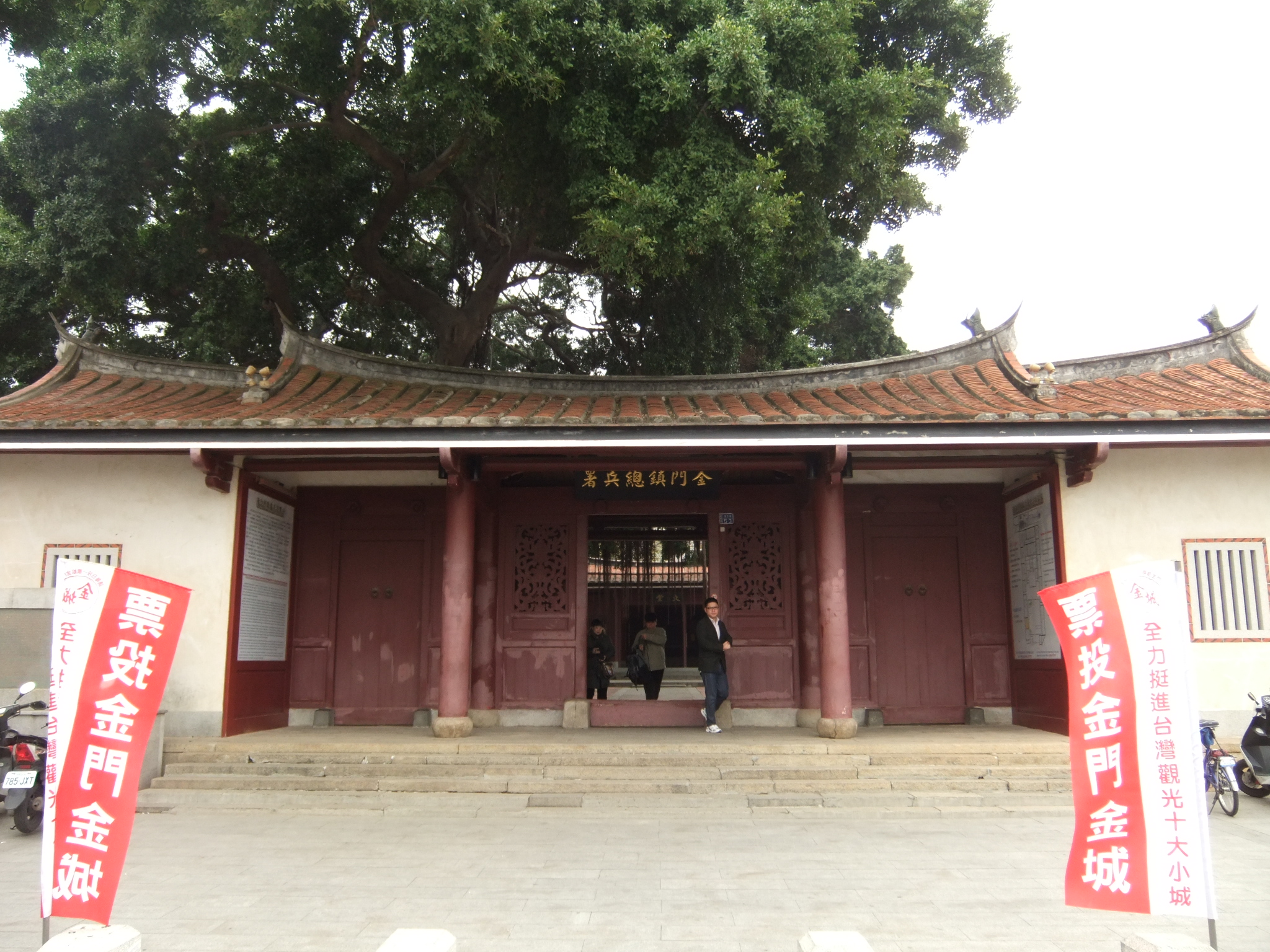 Kinmen Qing Military Governor's compound in Jincheng Town, now a museum